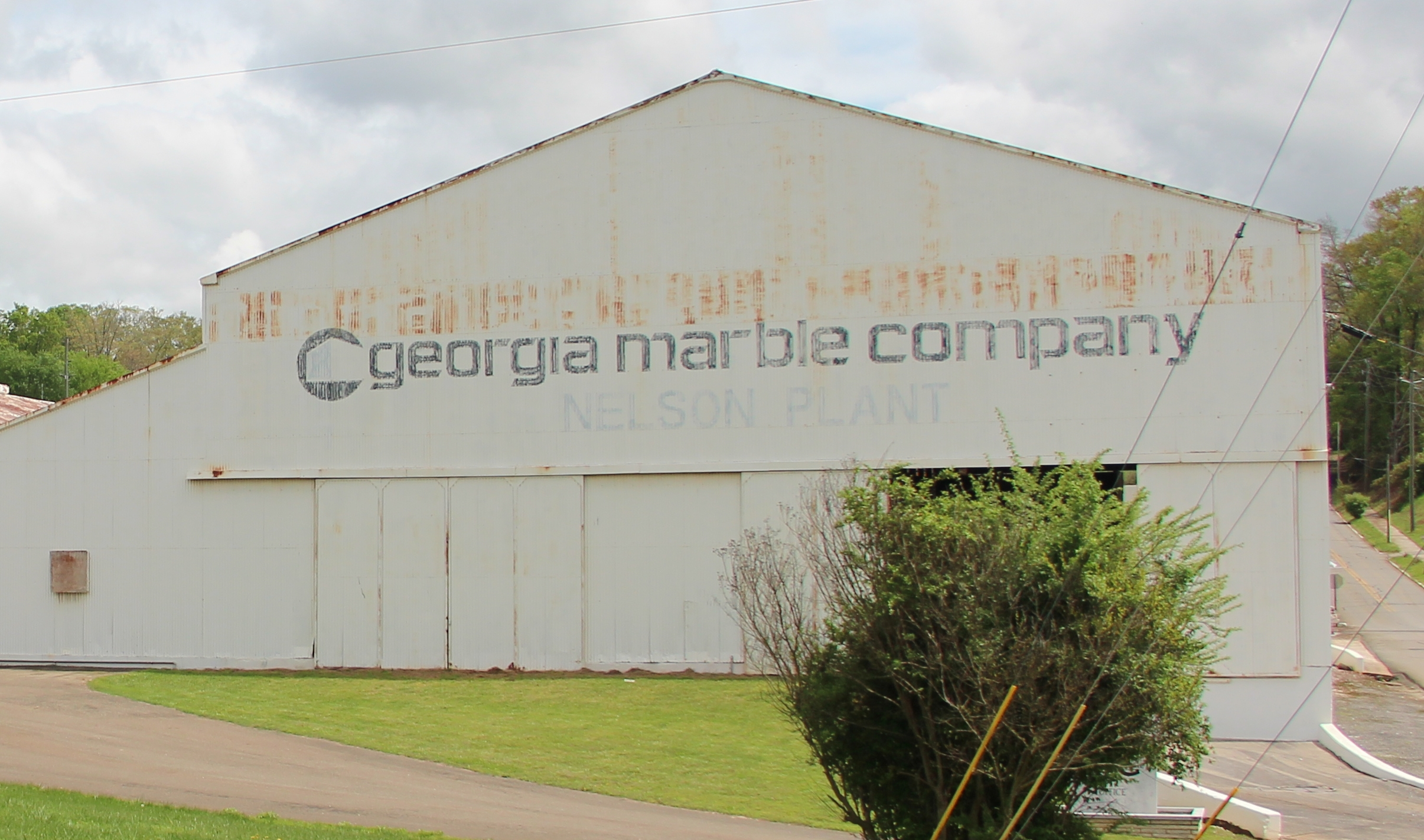 A building formerly owned by the Georgia Marble Company in Nelson, Georgia